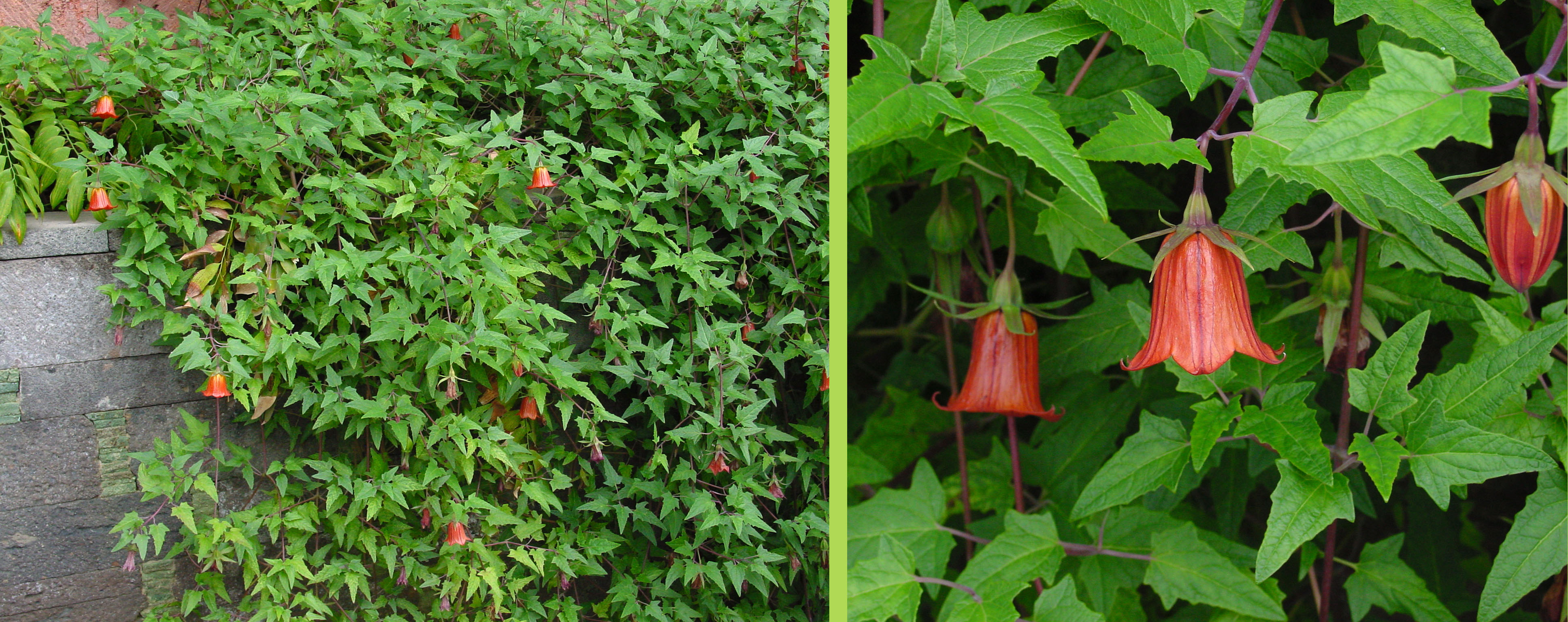 Canarina canariensis. Photo taken in the Jardin Botanico Canario, Gran Canaria .